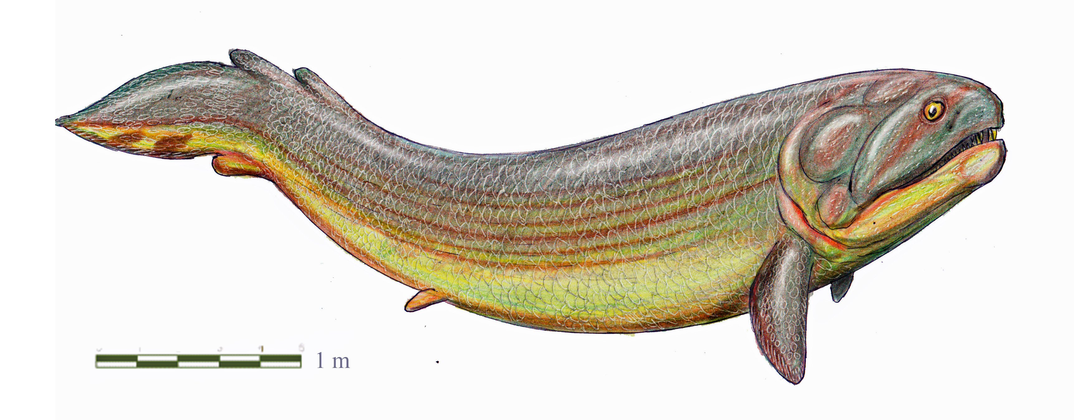 Reconstruction of Rhizodus, giant fresh-water sarcopterygian from Carboniferous of Europe and North America